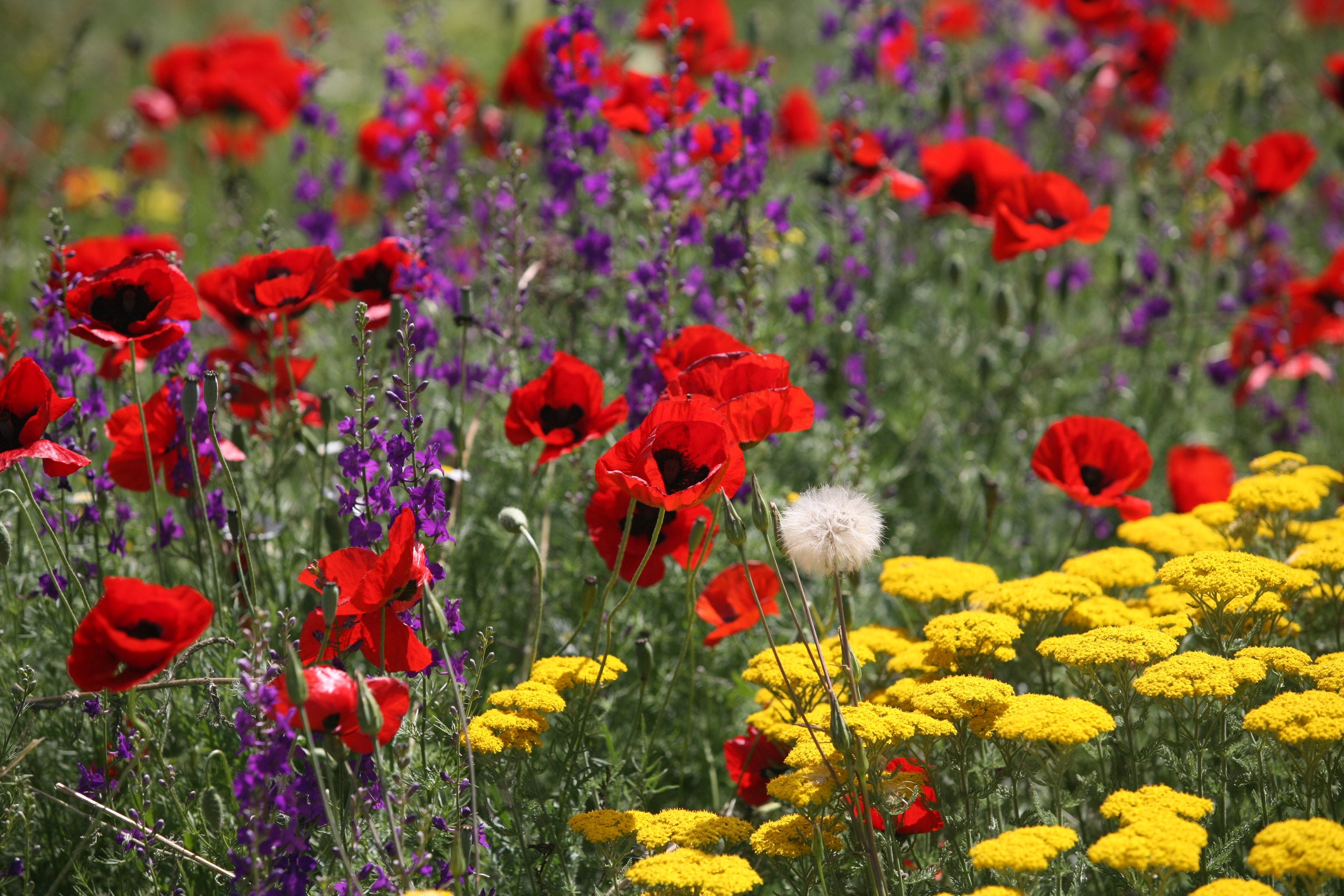 Three-colour lawn at Mt Ara